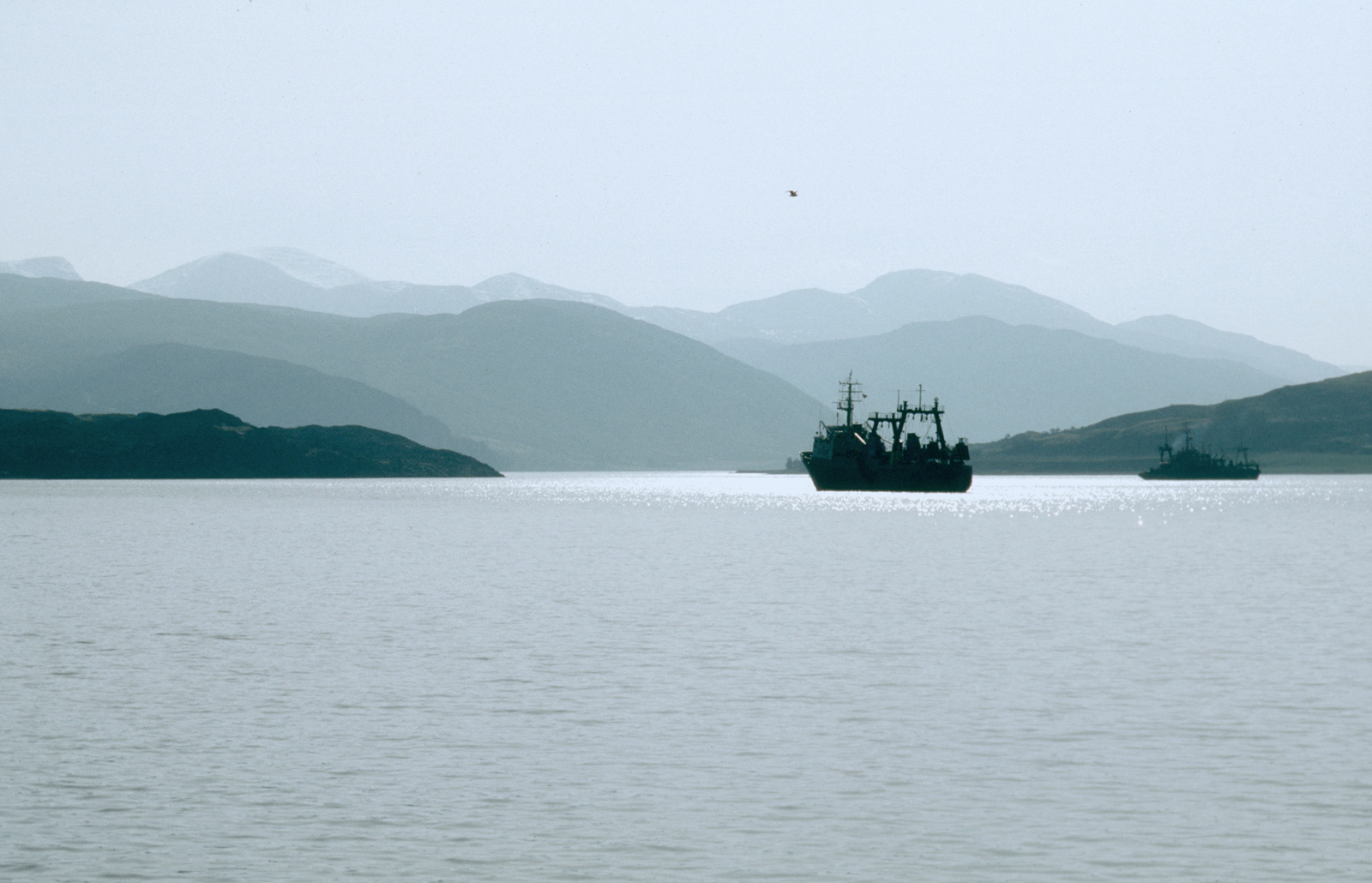 Factory ship in Loch Broom near the town of Ullapool in the Northwest Highlands of Scotland